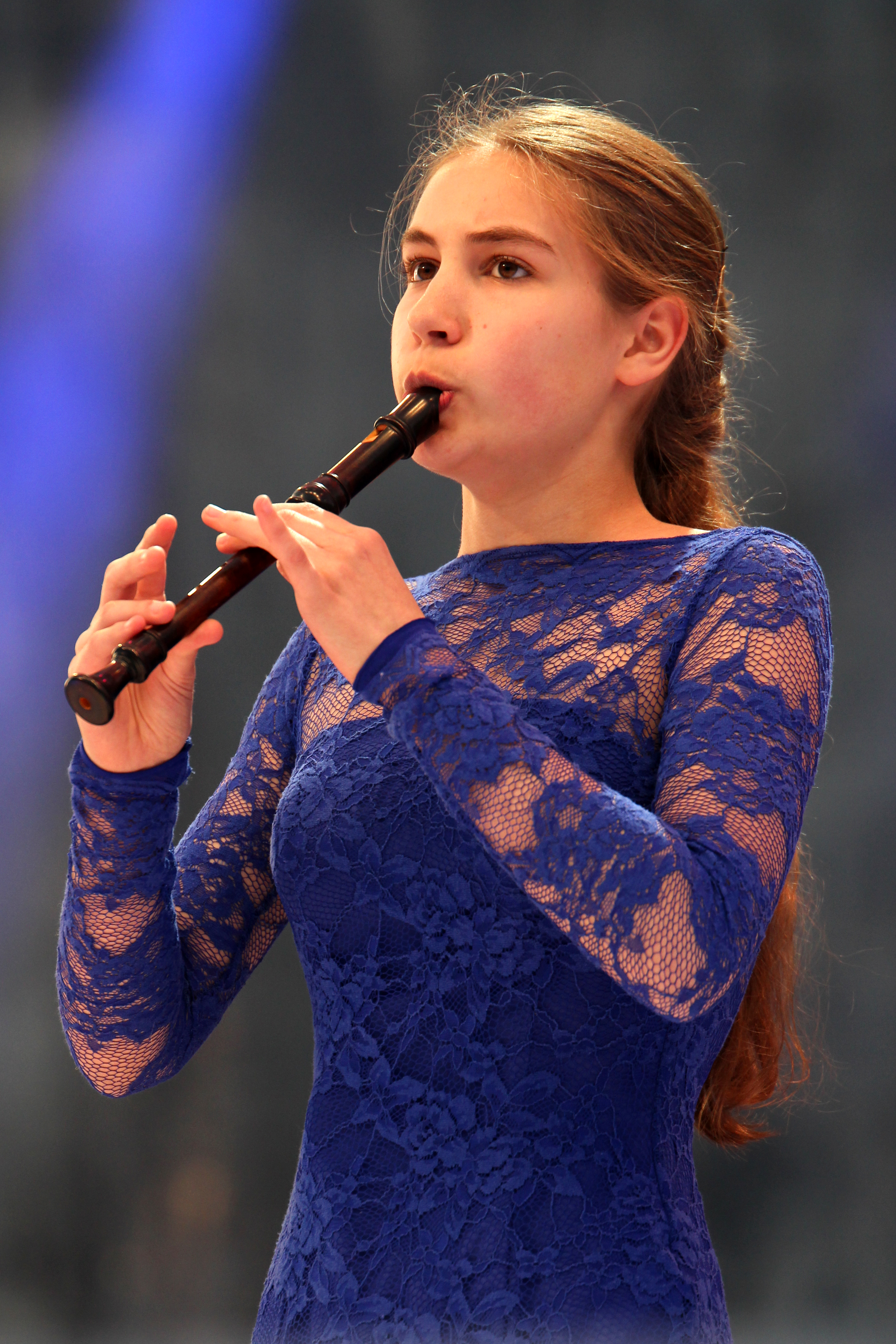 Lucie Horsch at final rehearsal for Eurovision Young Musicians 2014